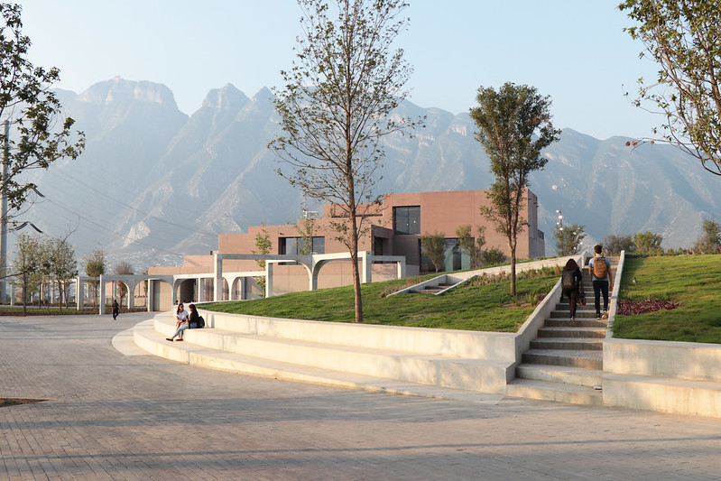 ESTOA UDEM